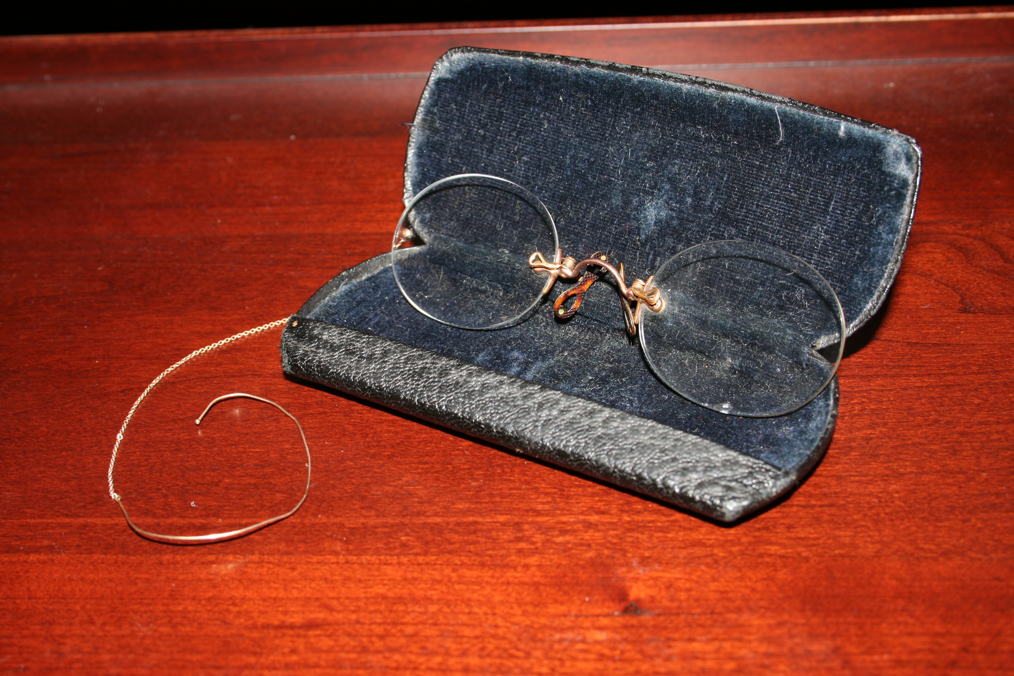 Photo of hard bridge pince nez glasses with chain and earhook.